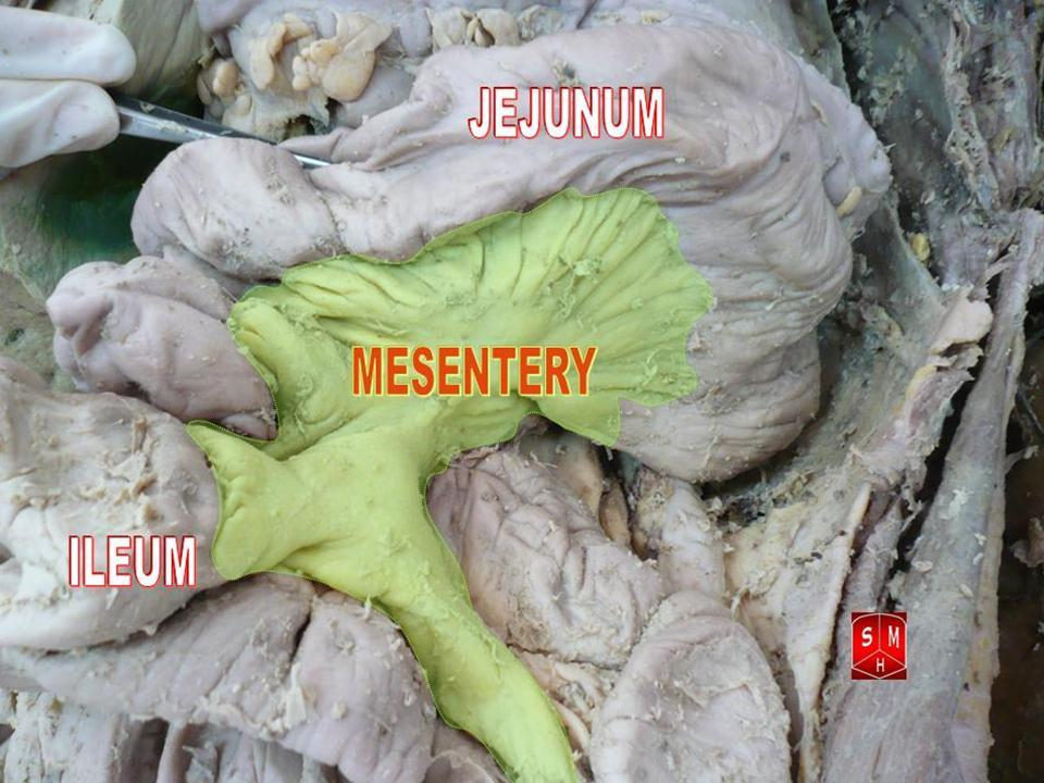 Mesentery